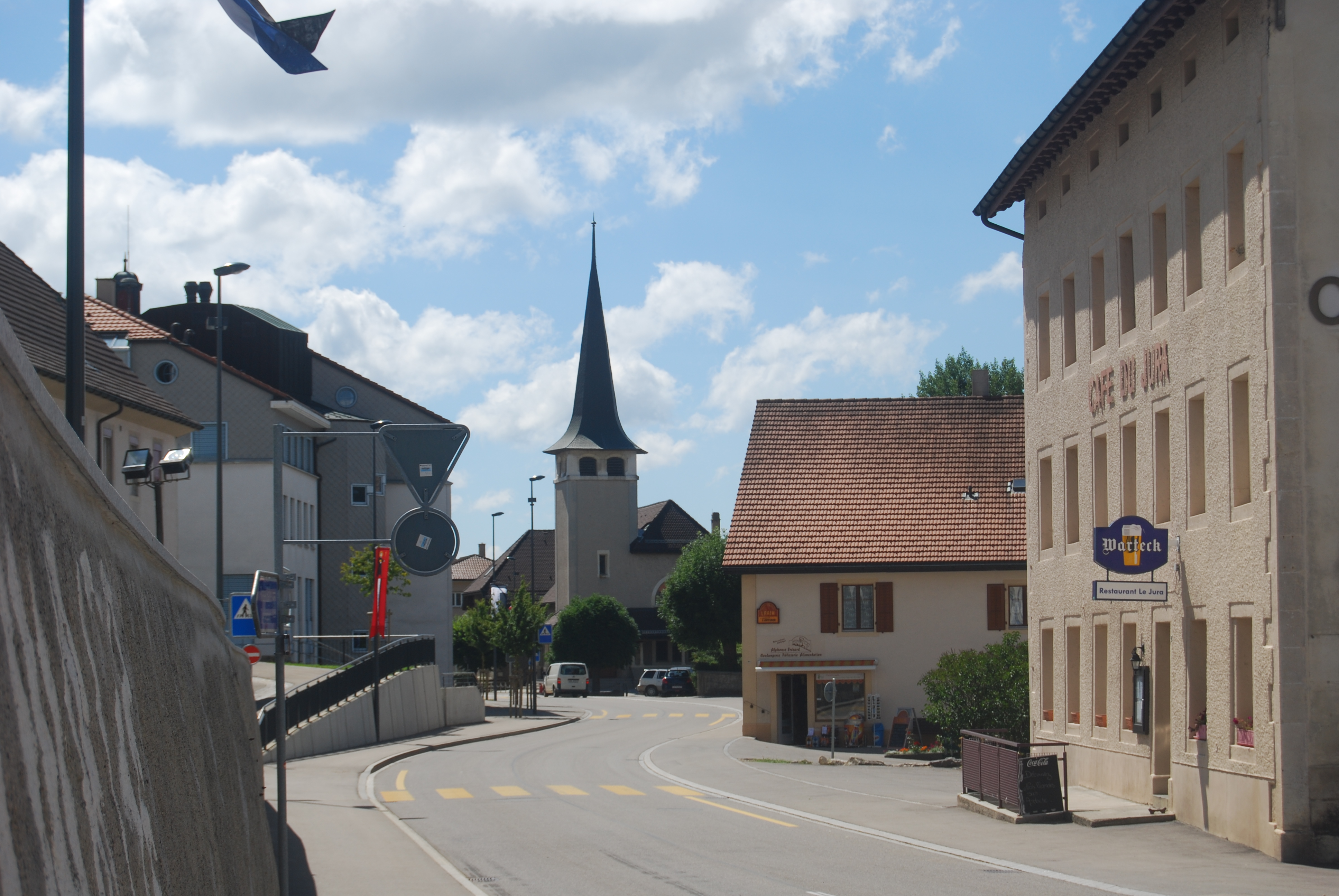 Protestant church of Saignelégier, canton of Jura, SwitzerlandEsperanto: Reformita preĝejo de Saignelégier, Kantono Ĵuraso, Svislando